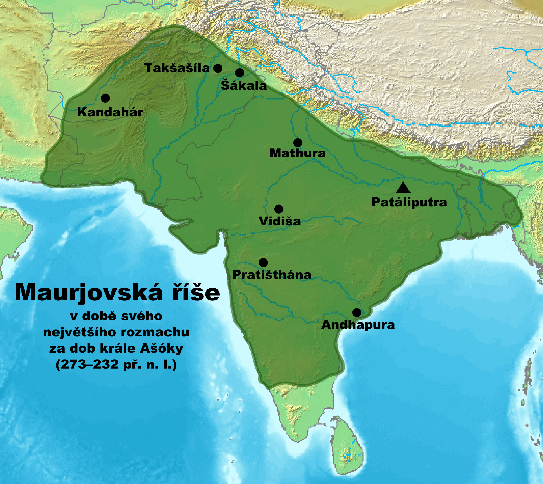 Maps of Mauryan Empire it time of Ashoka.